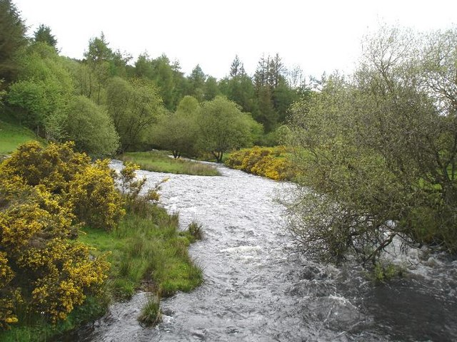 Afon Alwen. The river running down from the Alwen reservoir